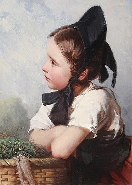 A rest on the way to market